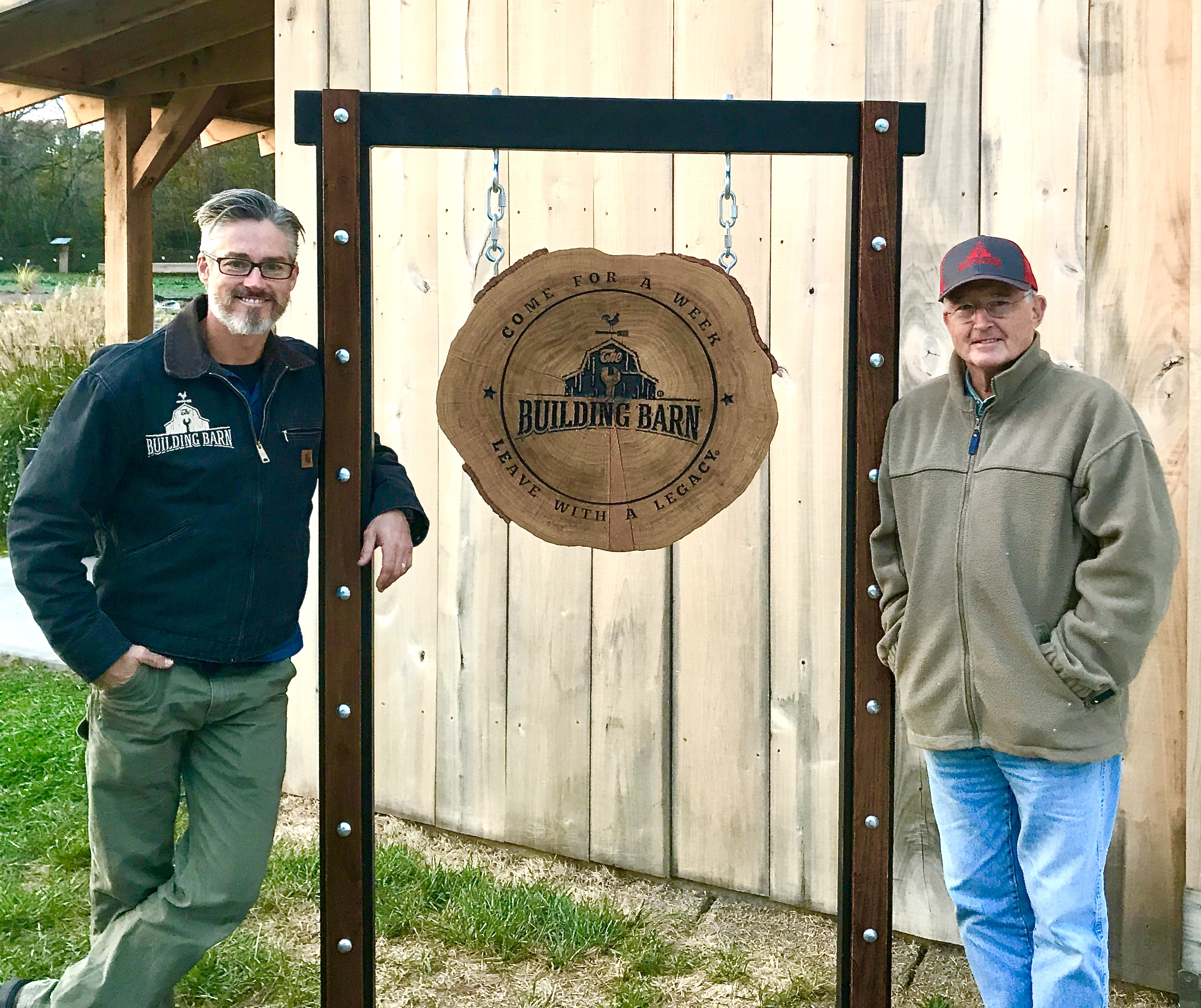 Evan and his Father who inspired The Building Barn